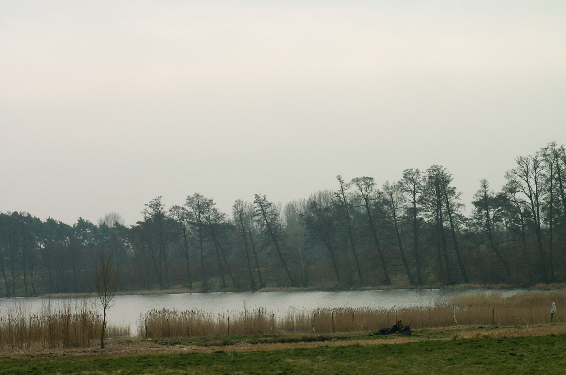 Jezioro Świesz - sight from center of village Świesz